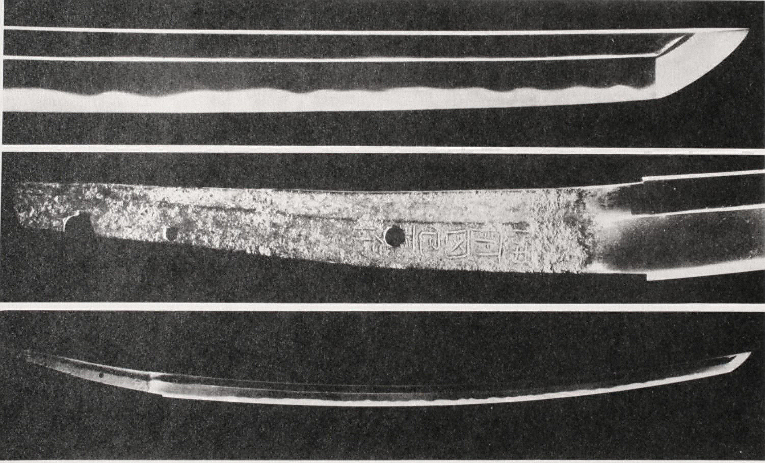 Tachi or "Great Kanehira" (Ōkanehira) Work of Kanehira from Bizen Province" (Bizen no kuni Kanehira tsuku) Kanehira Name ("?kanehira") refers to the extraordinary size of the blade; unusual signature for Kanehira who usually used a two character signature; owned by Ikeda Terumasa and passed down in the Ikeda clan; curvature 3.5 cm (1.4 in) Heian period, 12th century 89.2 cm (35.1 inch)